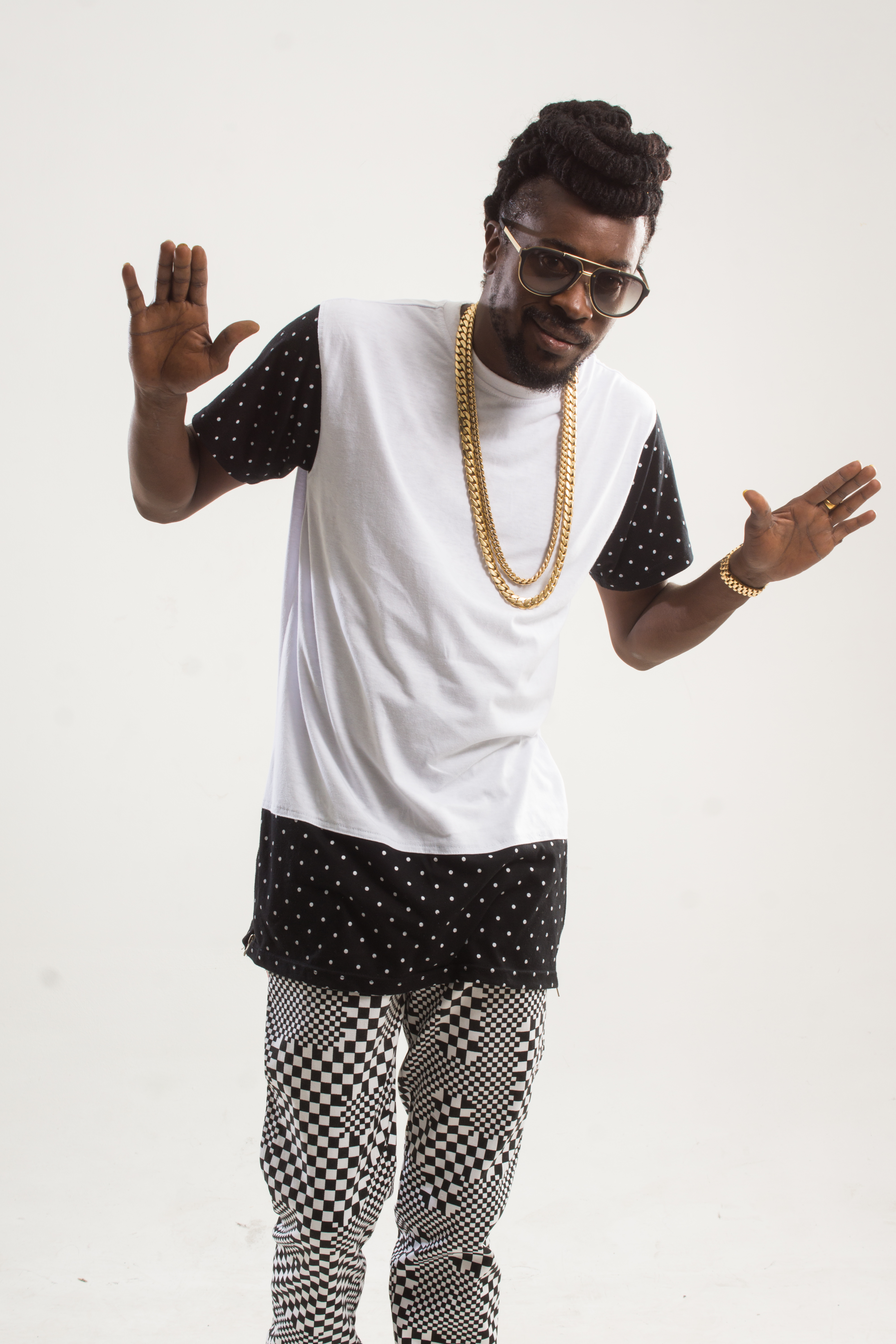 King of the Dancehall: Beenie Man